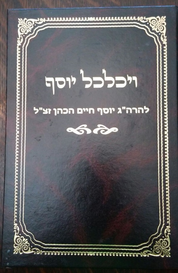 VaYechalkhel Yosef book by Rabbi Yosef Haim HaCohen. Edited by Ehud Avivi. Rehovot 2008